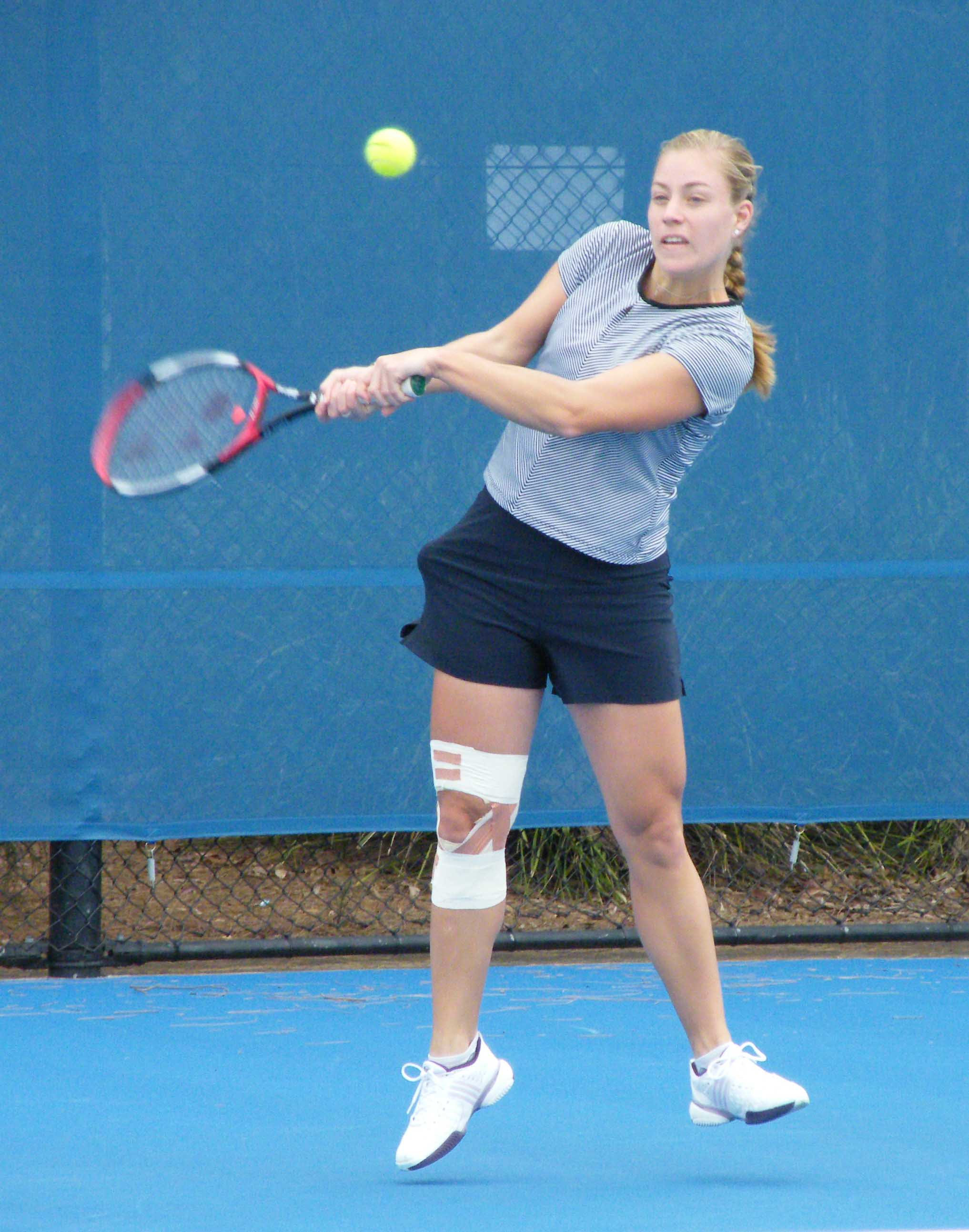 Tennis pro Angelique Kerber of Germany - NSW Tennis Open, January 2009